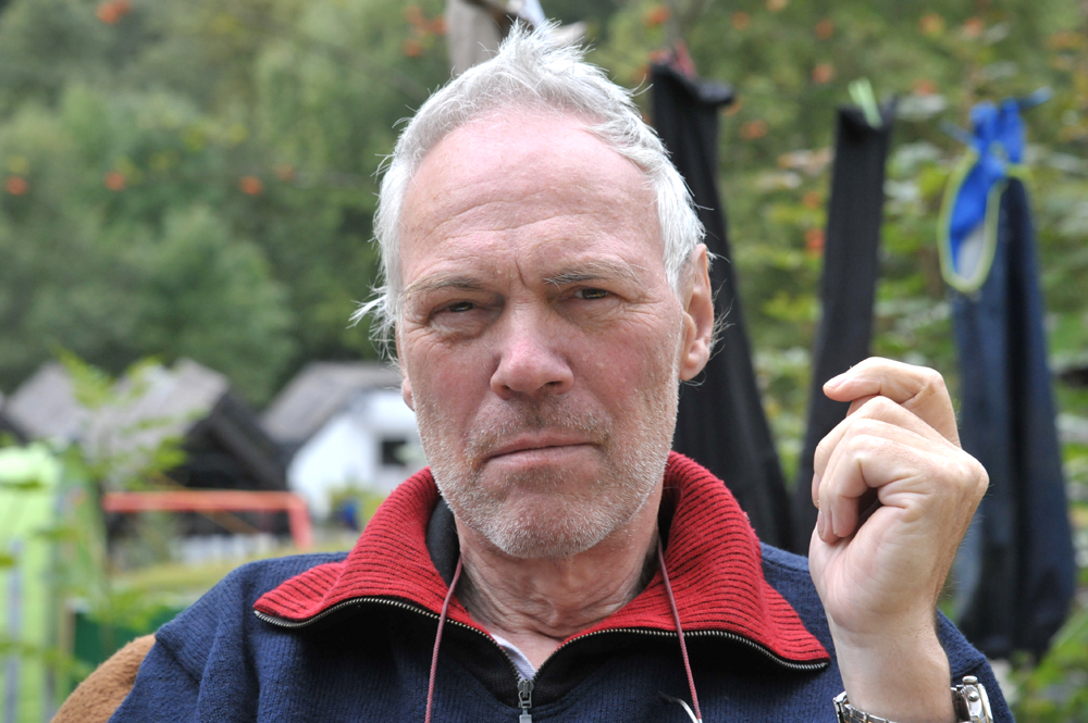 The german Author Hans-Peter Vogt on a privat vacance 2015 with his family